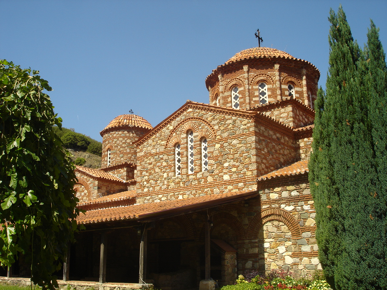 Vodoča Monastery, near Strumica, Macedonia